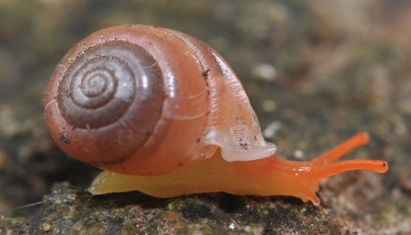 Living specimen of Perrottetia dermapyrrhosa (paratype CUMZ 5002) from the type locality (shell width about 7 mm).